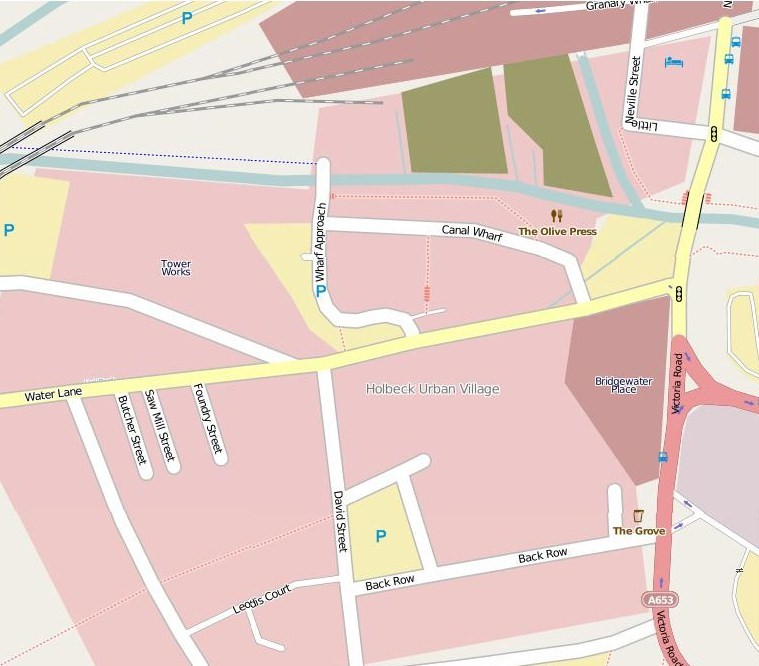 A street plan of Holbeck Urban Village (showing Bridgewater Place). Copied from openstreetmap on 29/09/2009.